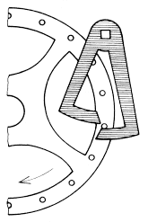 Amant escapment mechanism